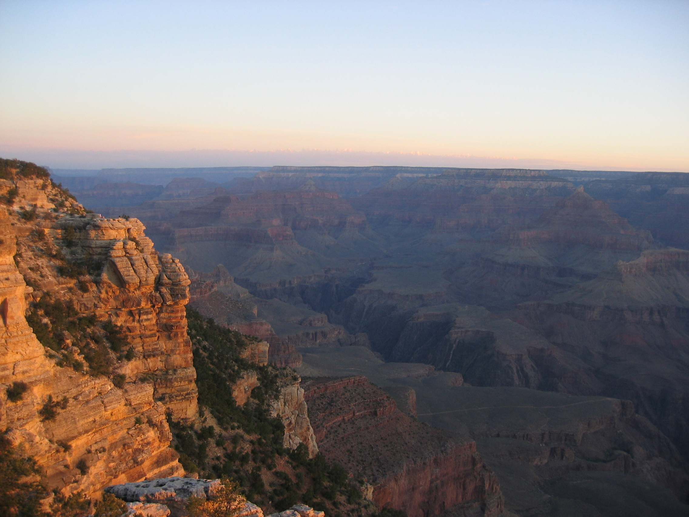 Photo of the Grand Canyon on the south rim at sunrise in Arizona, USA.